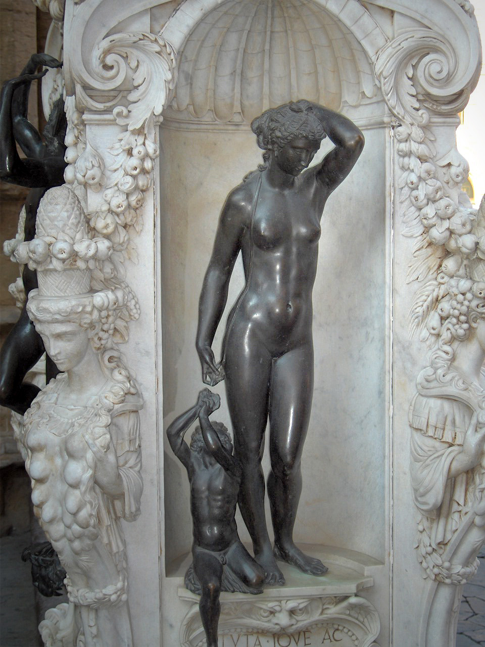 Modern replica of the statue of Danaë in the pedestal of Perseus; Loggia dei Lanzi, Florence, Italy. The original is on display at the Museo del Bargello in Florence. Own photo - photo made on 12 October 2005.